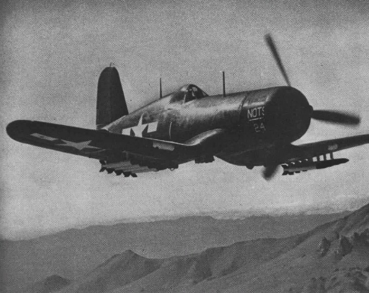 A Vought F4U-1D Corsair assigned to the Naval Ordnance Test Station (NOTS), China Lake, California (USA), in 1945, loaded with eight HVAR rockets.